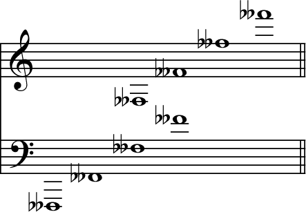 Notes, F Double Flat